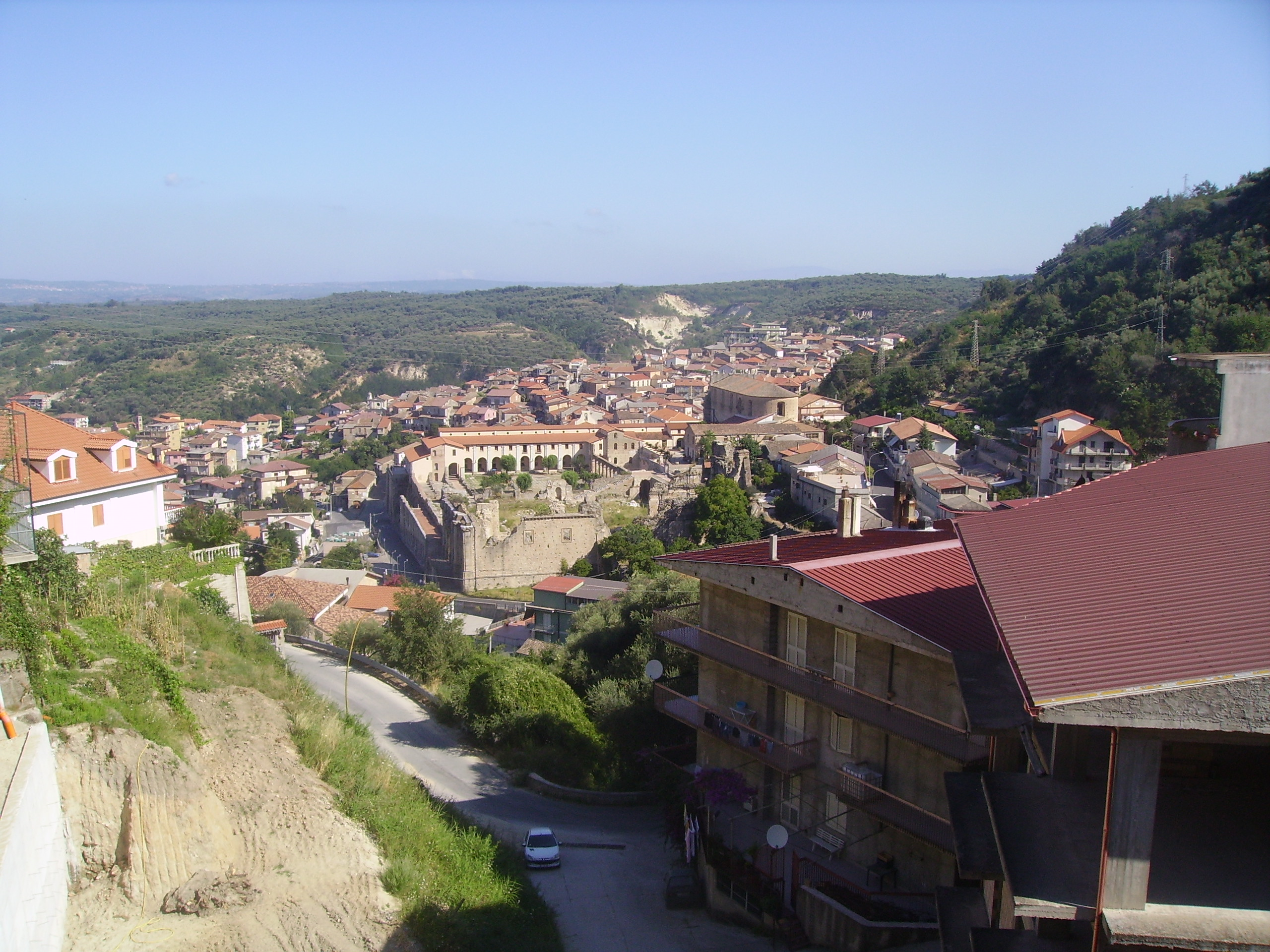 The city center of Soriano Calabro (VV), Italy